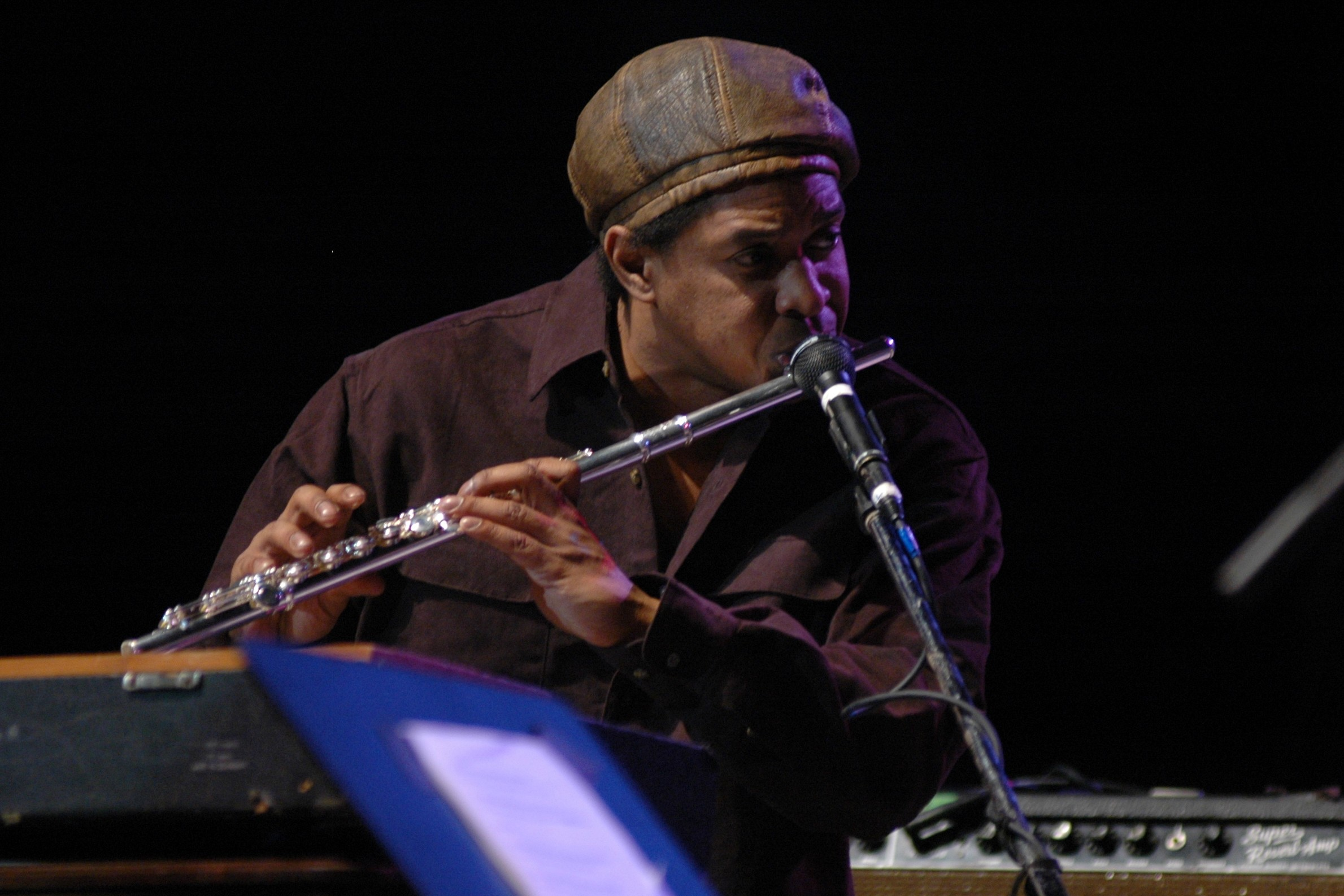 Soul Stew Revival at Mizner Park. 12/28/07.